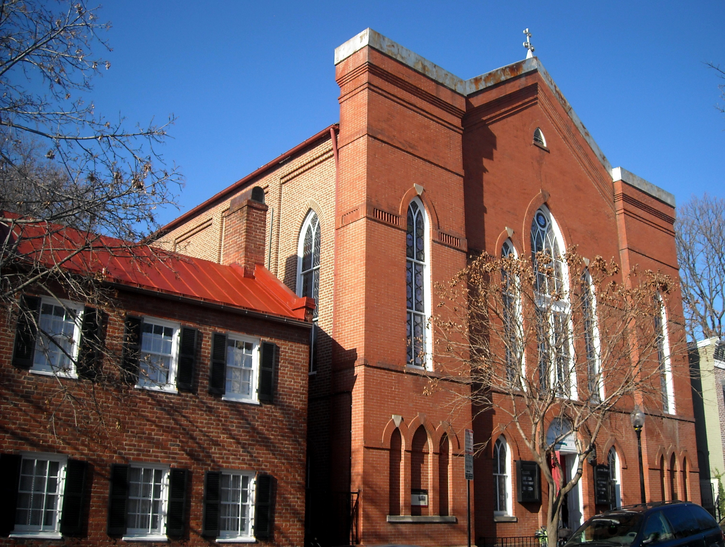 Mt. Zion United Methodist Church, located at 1334 29th Street, N.W., in the Georgetown neighborhood of Washington, D.C. Founded in 1816, Mt. Zion UMC is the oldest African American congregation in Washington, D.C. Until the passage of the Thirteenth Amendment to the United States Constitution in 1865, Mt. Zion was a stop on the Underground Railroad for runaway slaves. Construction of the Gothic Revival church was completed in 1884. Mt. Zion UMC was listed on the National Register of Historic Places in 1975; in addition, the building is designated as a contributing property to the Georgetown Historic District, listed as a National Historic Landmark in 1967.